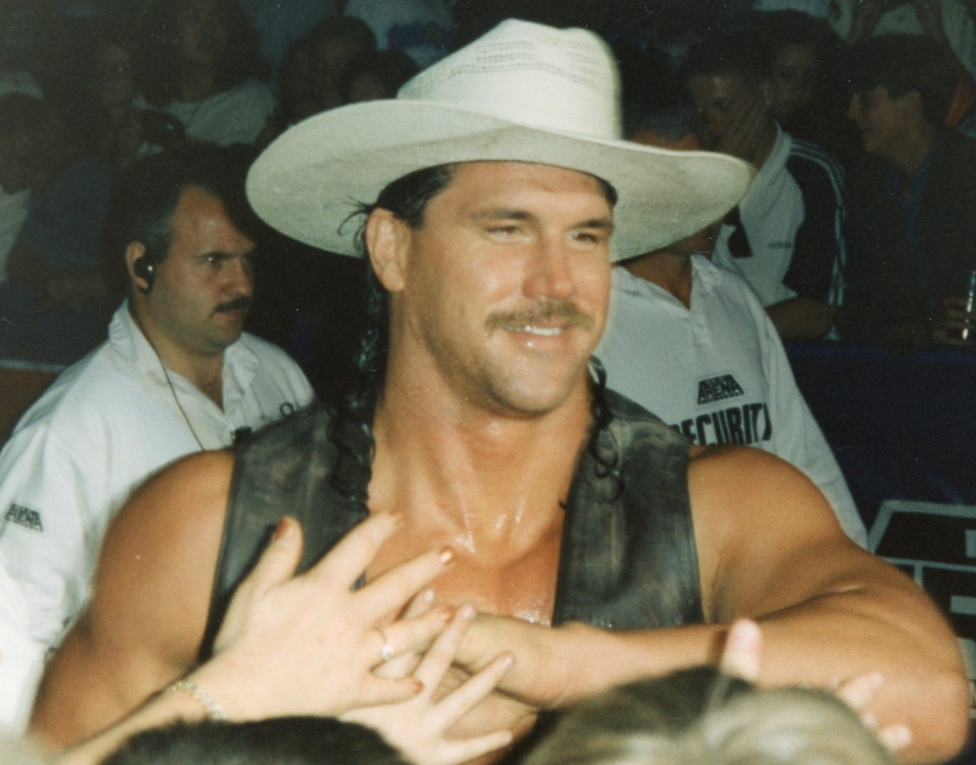 An image of professional wrestler Bart Gunn from 1995.